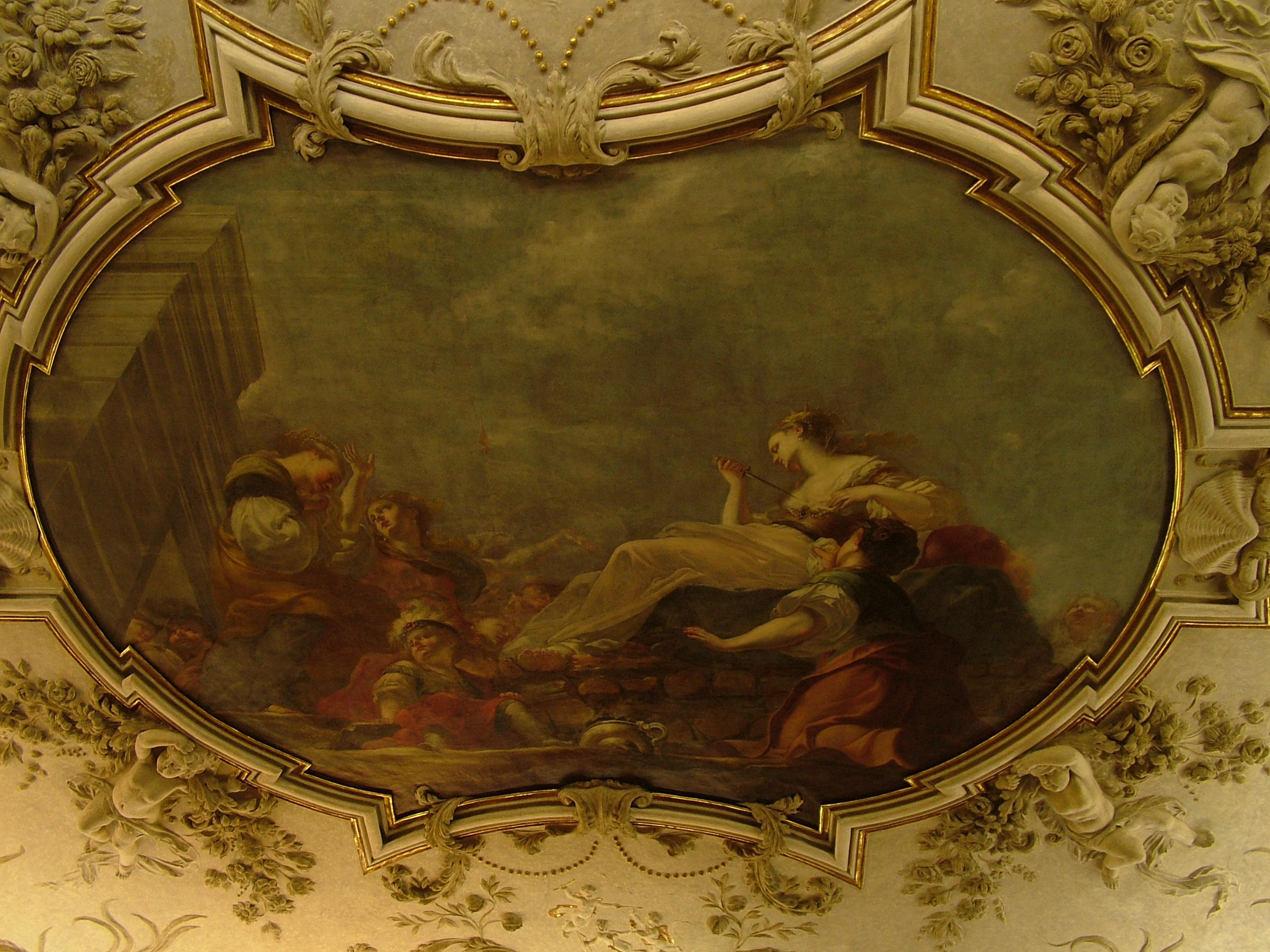 Šternberský palác - Prague